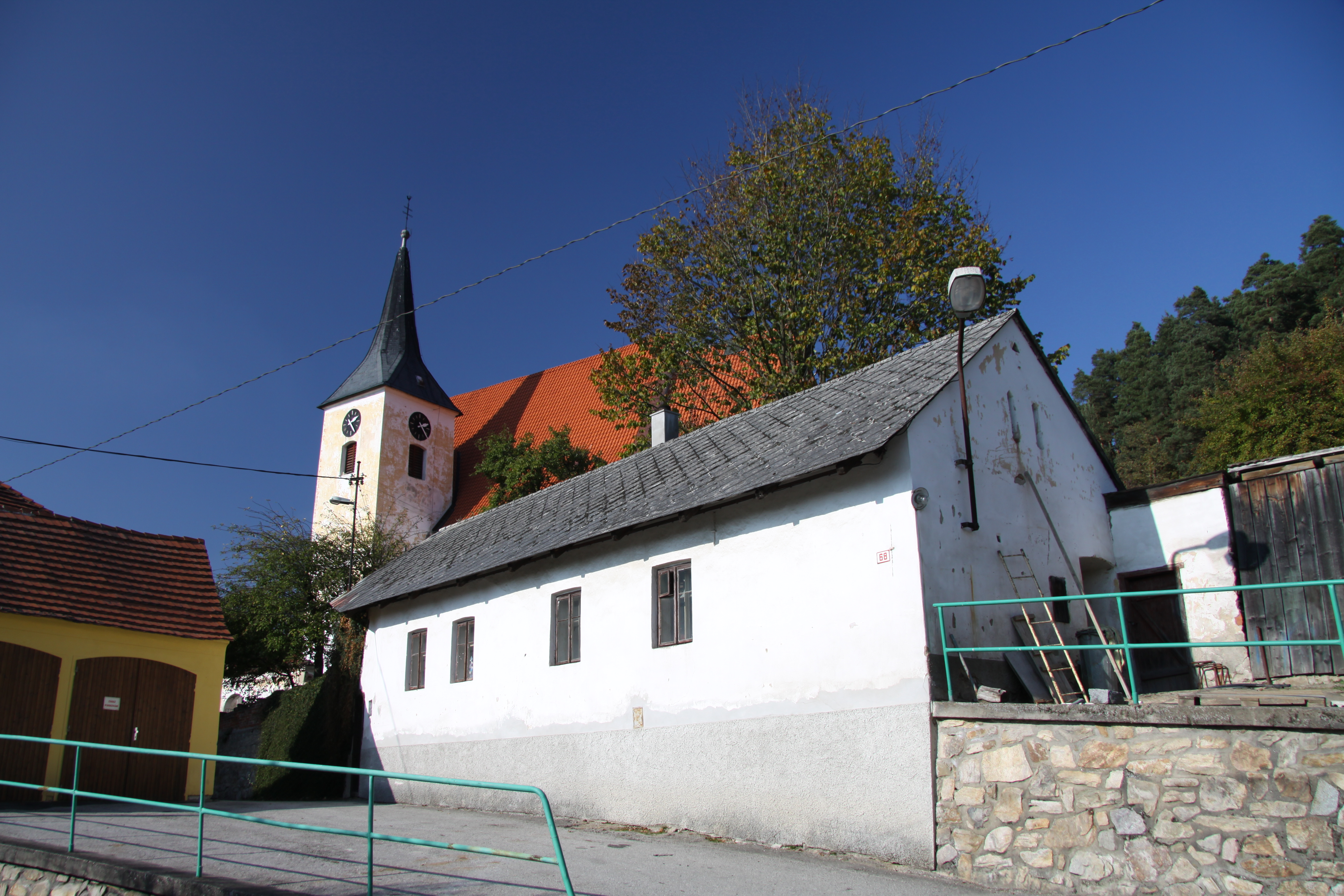 Church in Brloh village in Český Krumlov District, Czech Republic - Google Maps - Google Earth